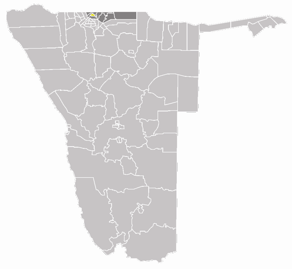 map of the Ohangwena constituency within the Ohangwena region, Namibia